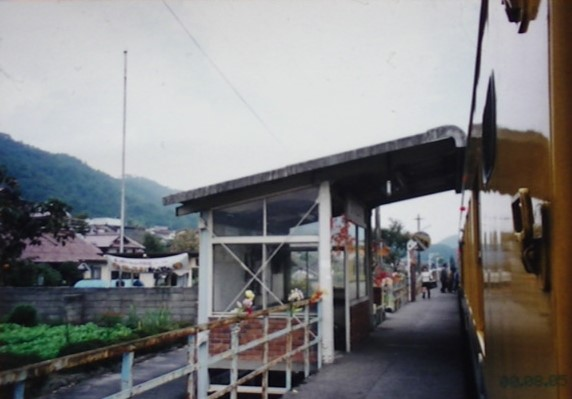 JR Kabe line Kamitono station (2003 November)